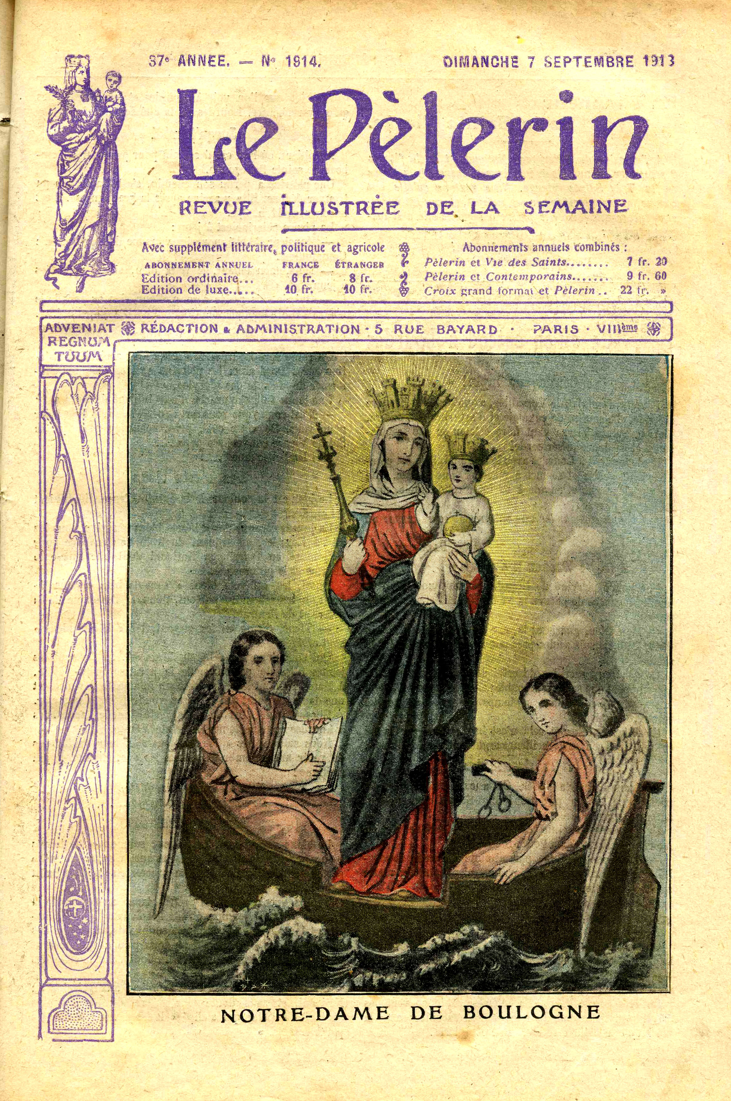 Cover of French periodical Le Pèlerin